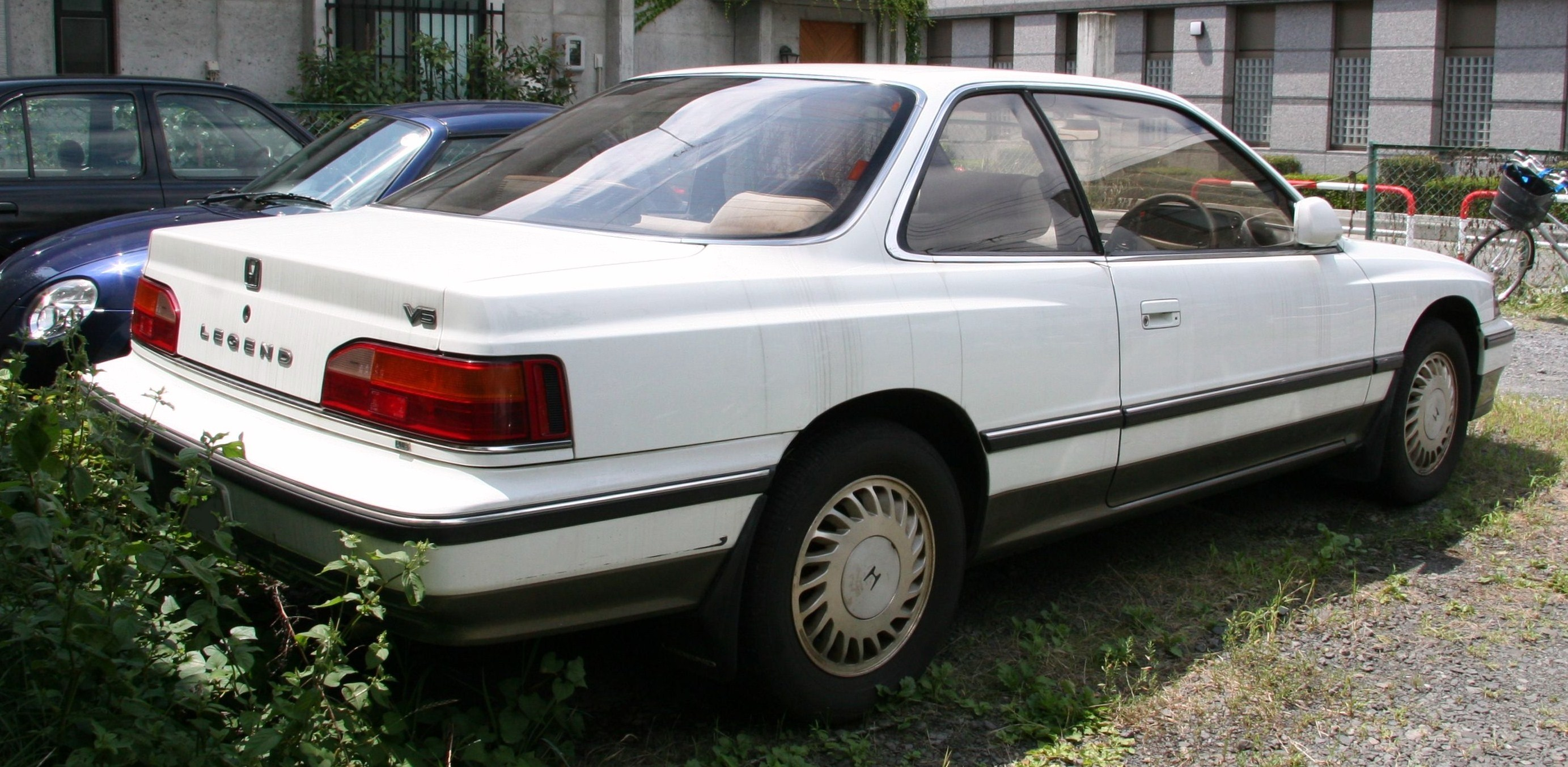 Honda Legend